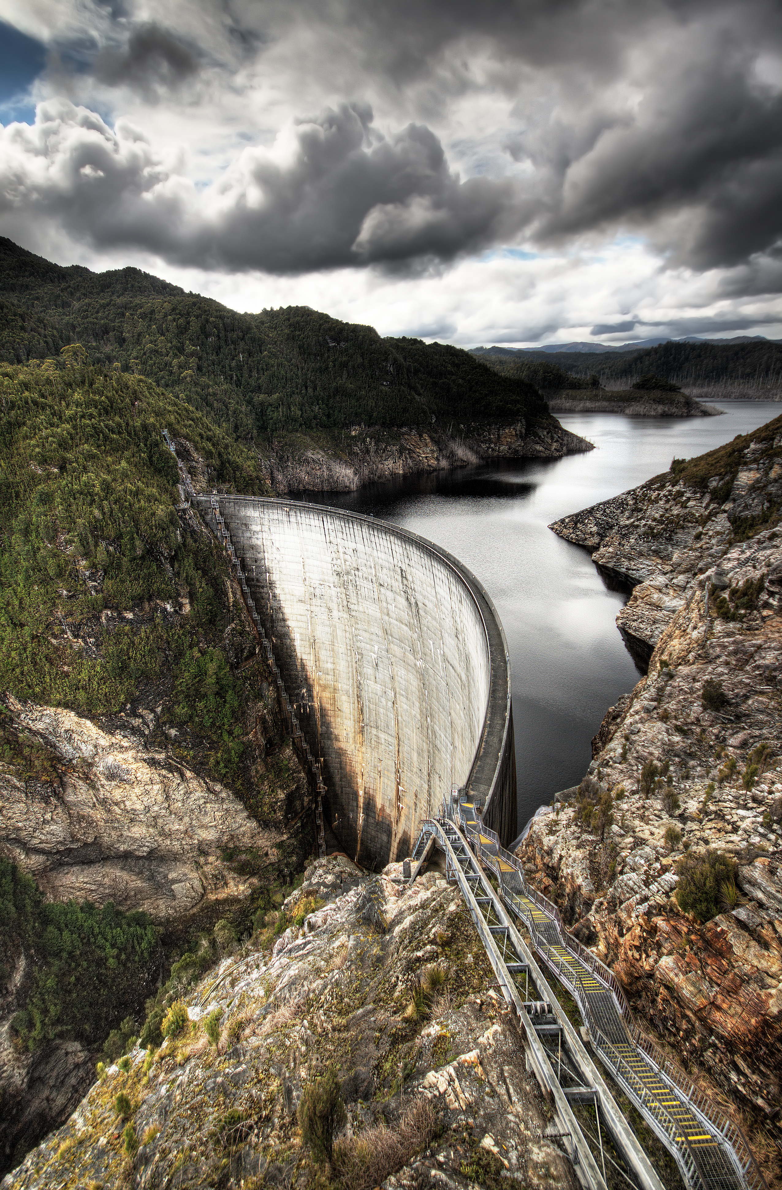 Gordon Dam, Southwest National Park, Tasmania, Australia.